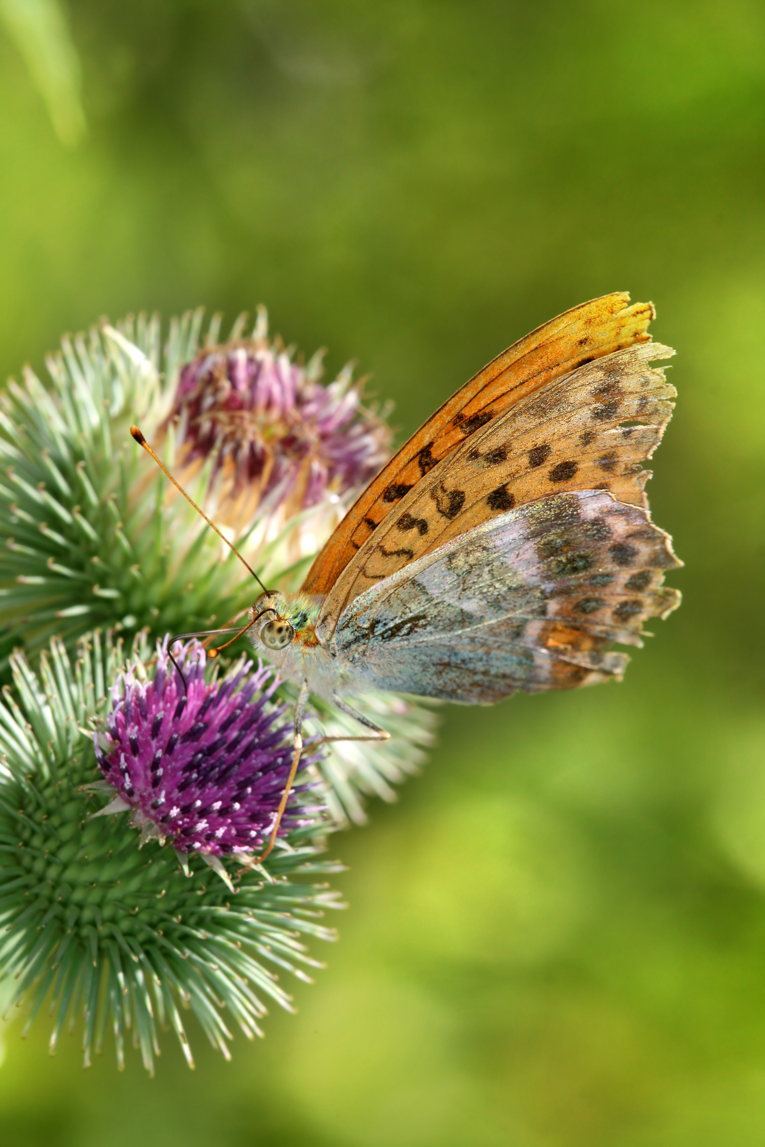 Description: The Silver-washed Fritillary (Argynnis paphia) is a European species of butterfly, which was in decline for much of the 1970s and 1980s but seems to be coming back to many of its old territories.